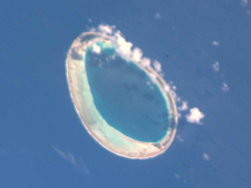 NASA astronaut image of Hiti Atoll (Tuamotu Archipelago, French Polynesia) in the Pacific Ocean